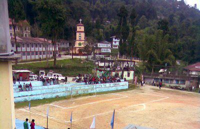 A glimpse of Pedong town